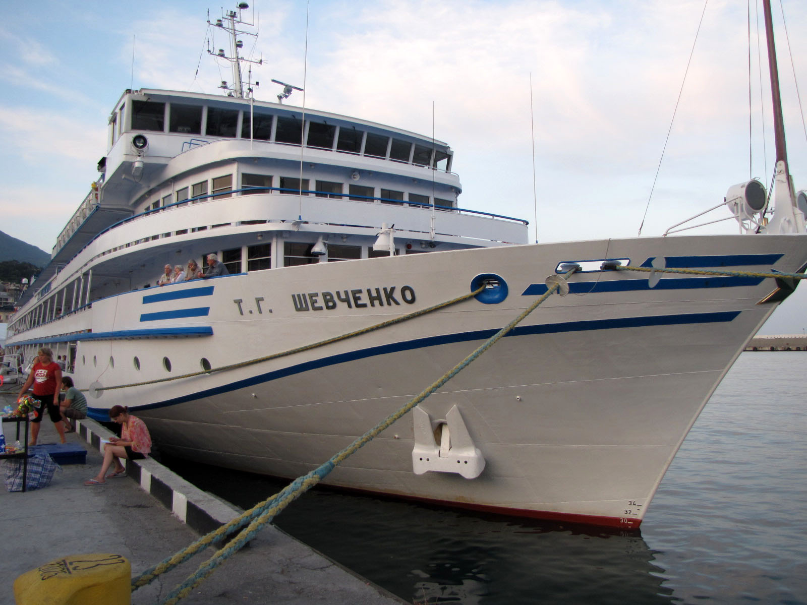 MS T. G. Shevchenko in Yalta